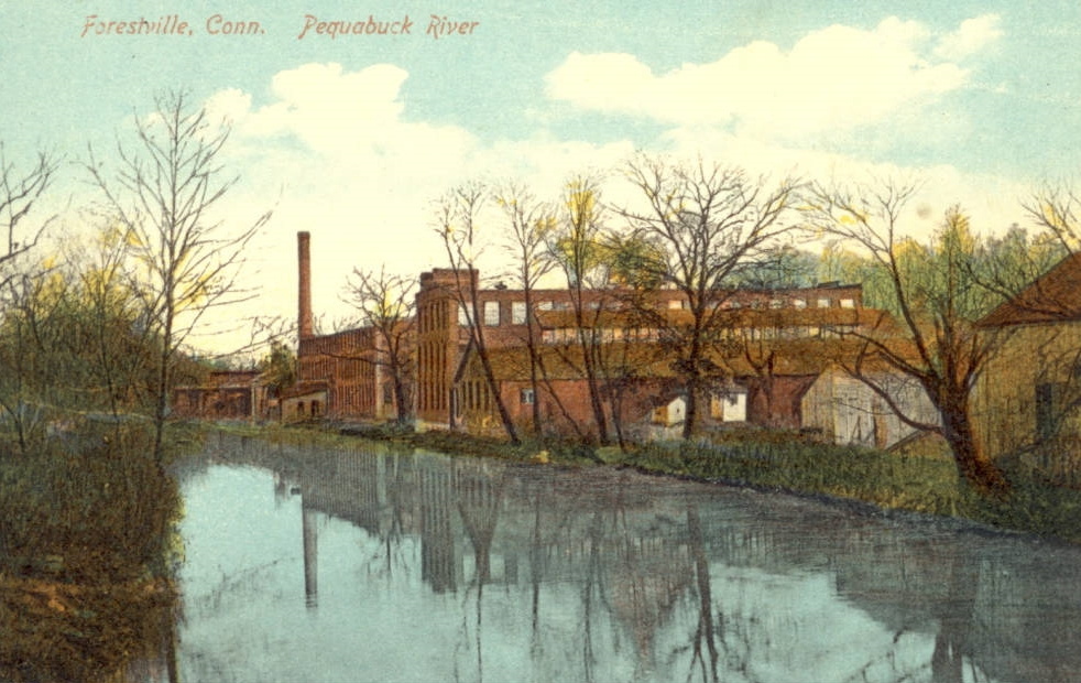 Portrays a stretch of the Pequabuck River in Forestville, Connecticut. Industrial buildings line one of the river banks. This image apparently portrays the river as it would have appeared sometime between late autumn and early spring.